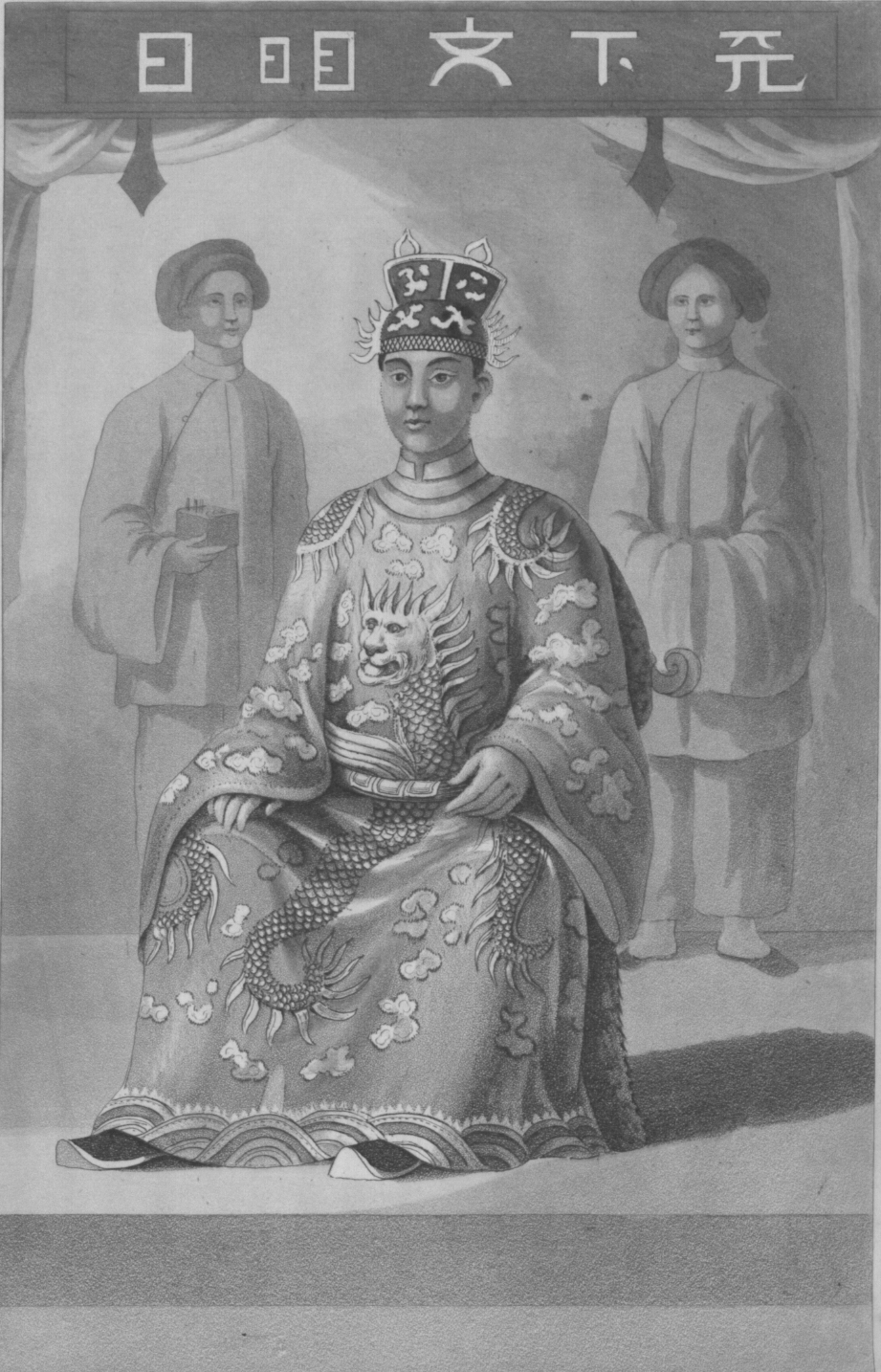 Emperor Minh Mang as depicted in Journal of an Embassy to the Courts of Siam and Cochin-China, exhibiting a view of the actual State of these Kingdoms by John Crawfurd (1783-1868), London, 1828.